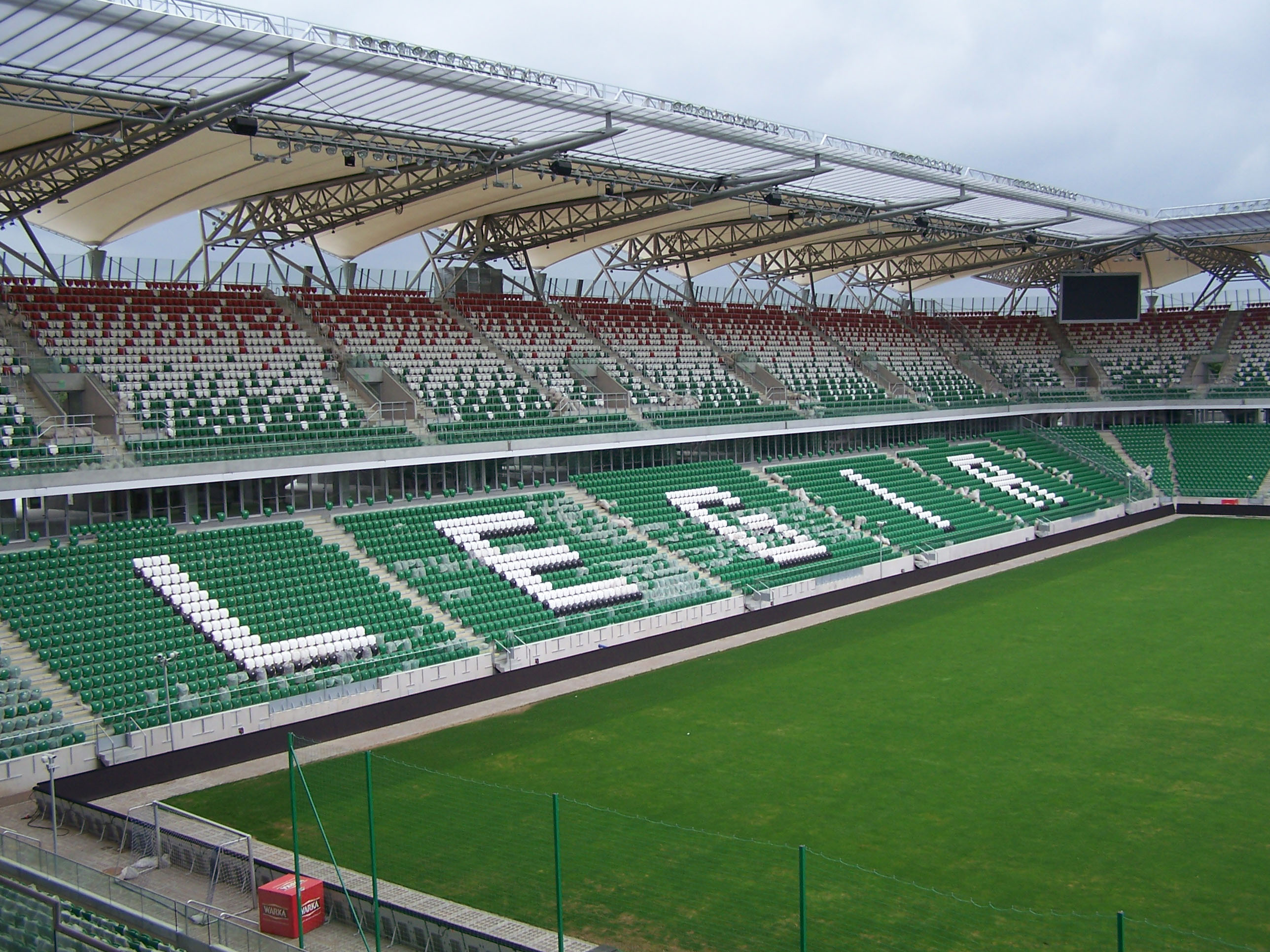 Eastern stand of the renovated Polish Army Stadium (Stadion Wojska Polskiego) in Warsaw, Poland